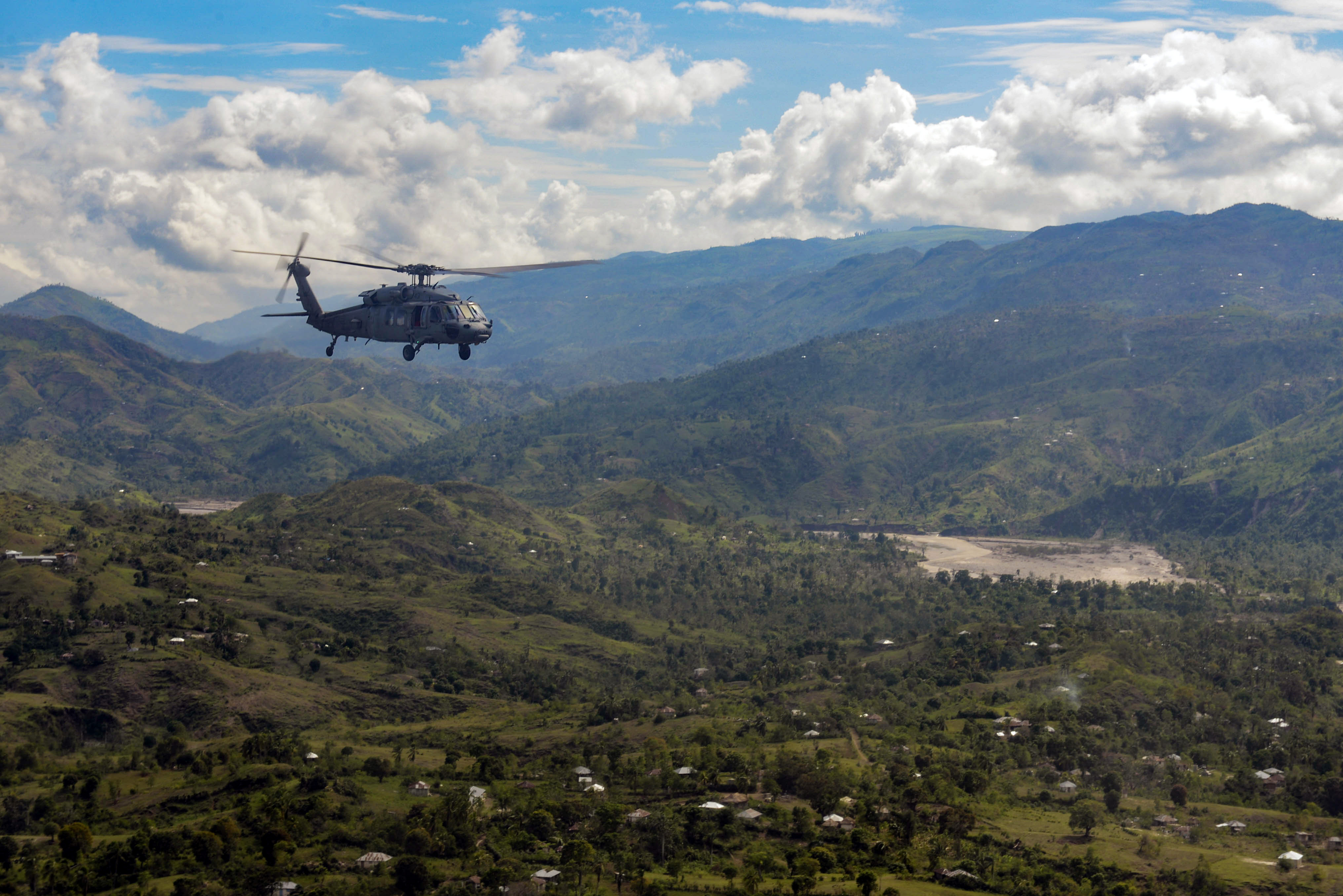 JABOUIN, Haiti (Oct. 18, 2016) An MH-60S Seahawk, assigned to Helicopter Sea Combat Squadron 28 (HSC-28), approaches the village of Jabouin to deliver food. Joint Task Force Matthew is providing disaster relief and humanitarian aid to Haiti following Hurricane Matthew. (U.S. Navy photo by Petty Officer 2nd Class Hunter S. Harwell/Released)161018-N-RL456-691 Join the conversation: navylive.dodlive.mil